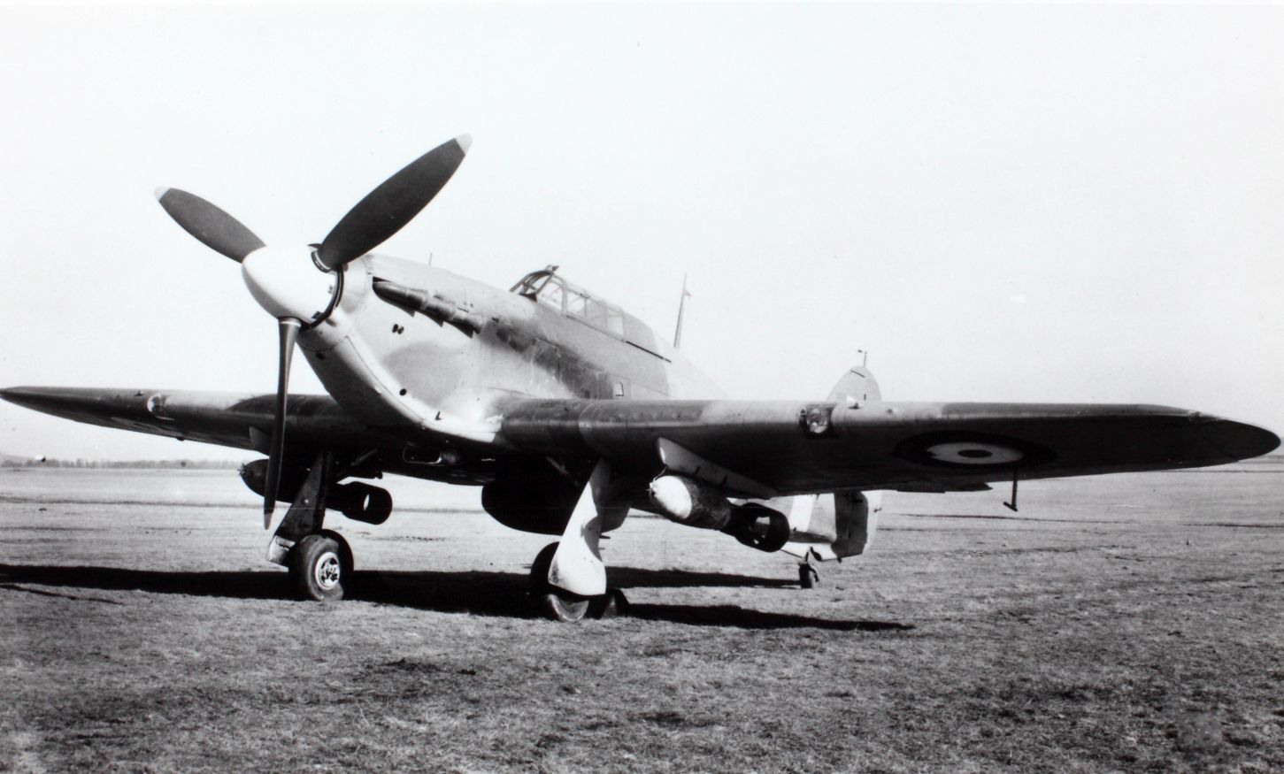 Image from the Charles Daniels Photo Collection album "British Aircraft." SOURCE INSTITUTION: San Diego Air and Space Museum Archive